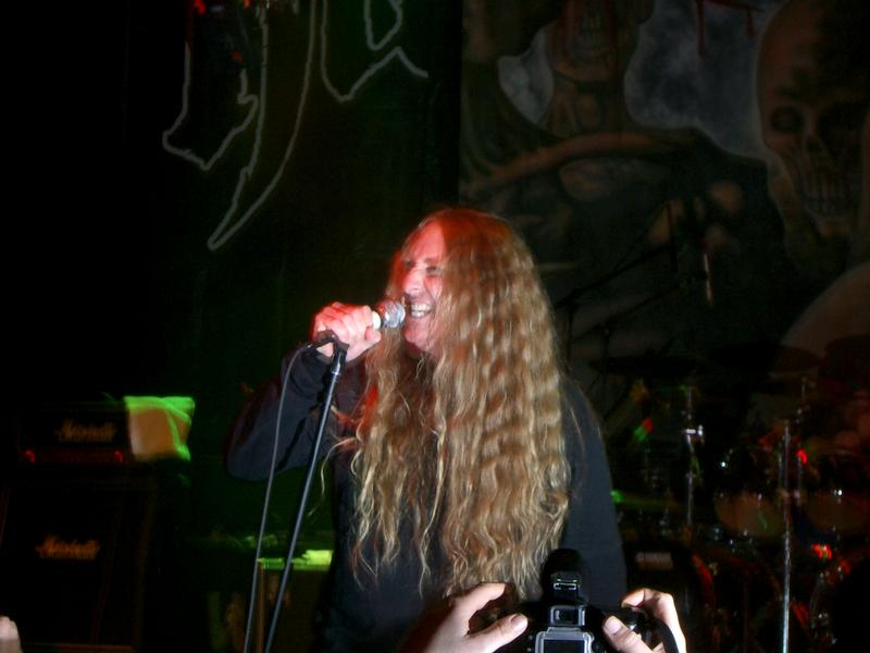 John Tardy for Obituary band